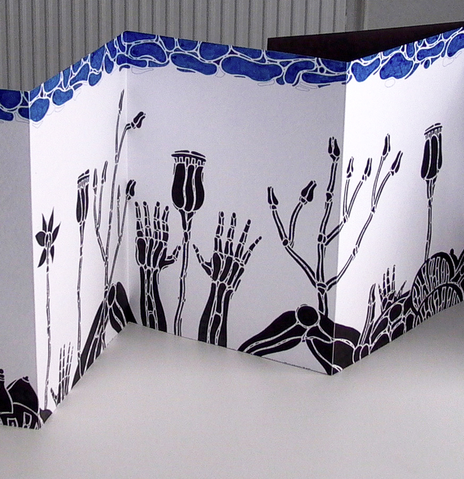 Mikhail Molochnikov. Untitled, 2009. Original drawings with color inks, leporello book, unique copy.